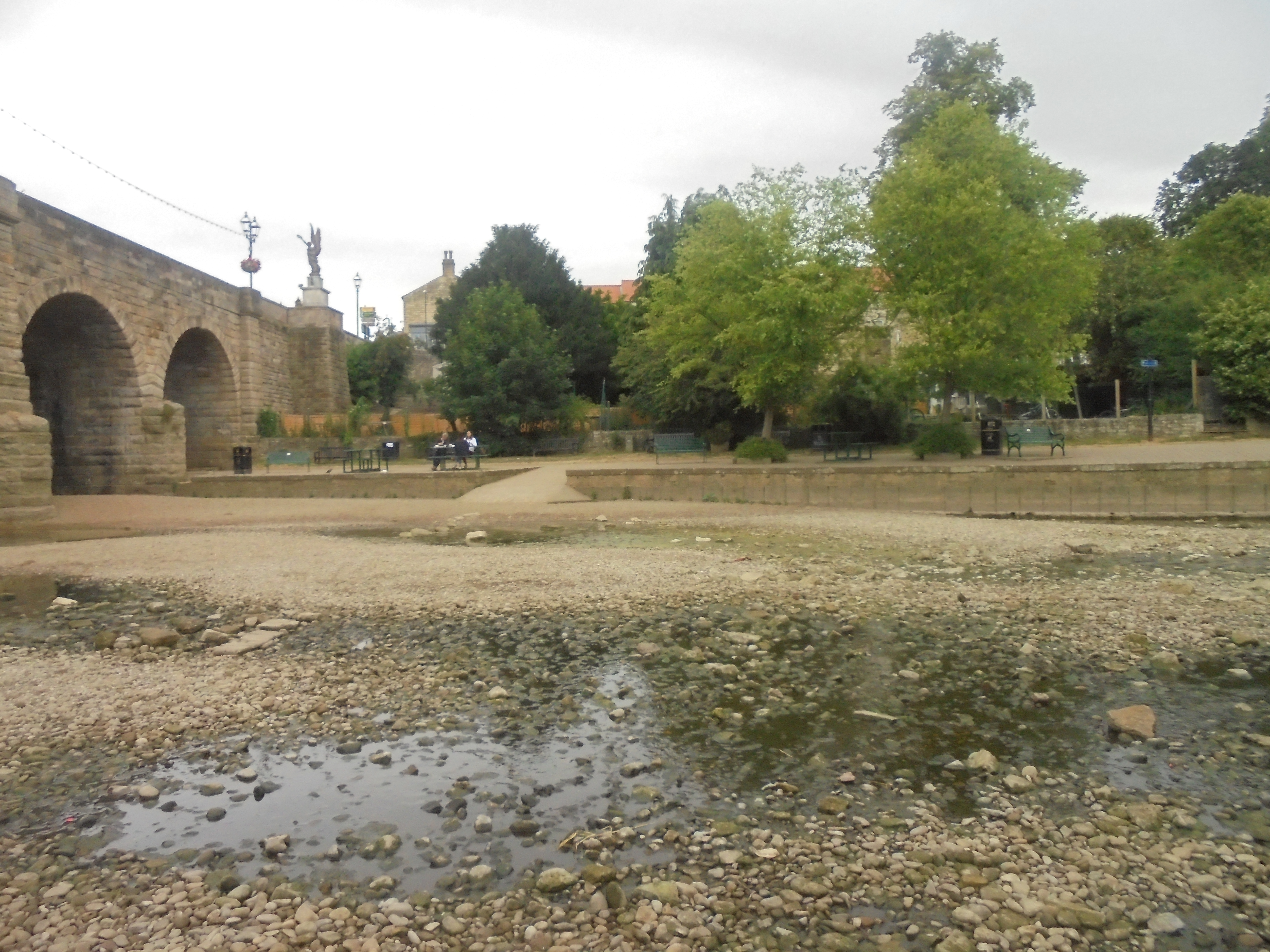 Dry weir on the Wharfe at Wetherby, West Yorkshire. The weeks of hot weather and lack of rainfall have left the country looking rather dry and barren, reminiscent of 1976 and 1996. Taken on the evening of Monday the 9th of July 2018.